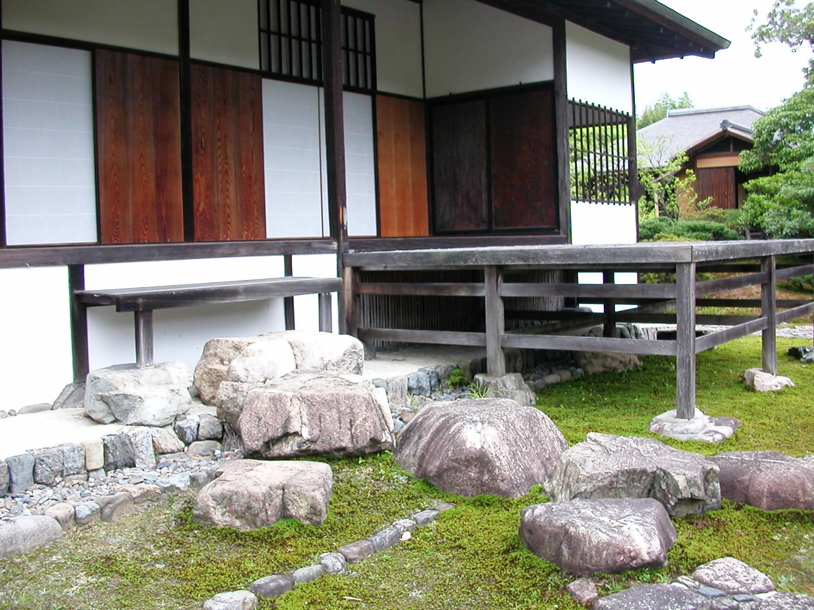 Katsura Imperial Villa 桂離宮 【Gaia Walker Slide Show Demonstration】